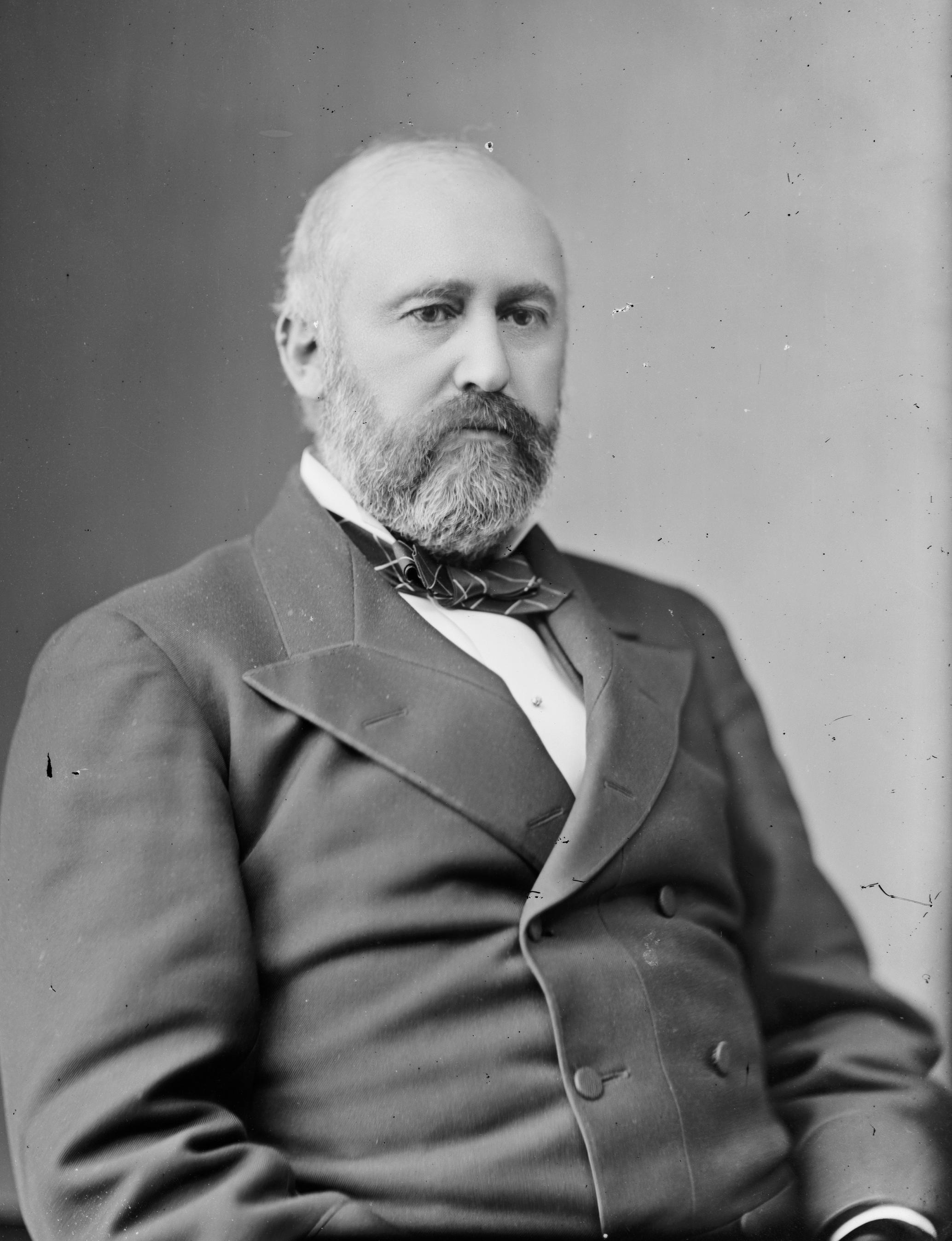 Jerome B. Chaffee. Library of Congress description: "Chaffee, Hon. J.B. of Colorado"